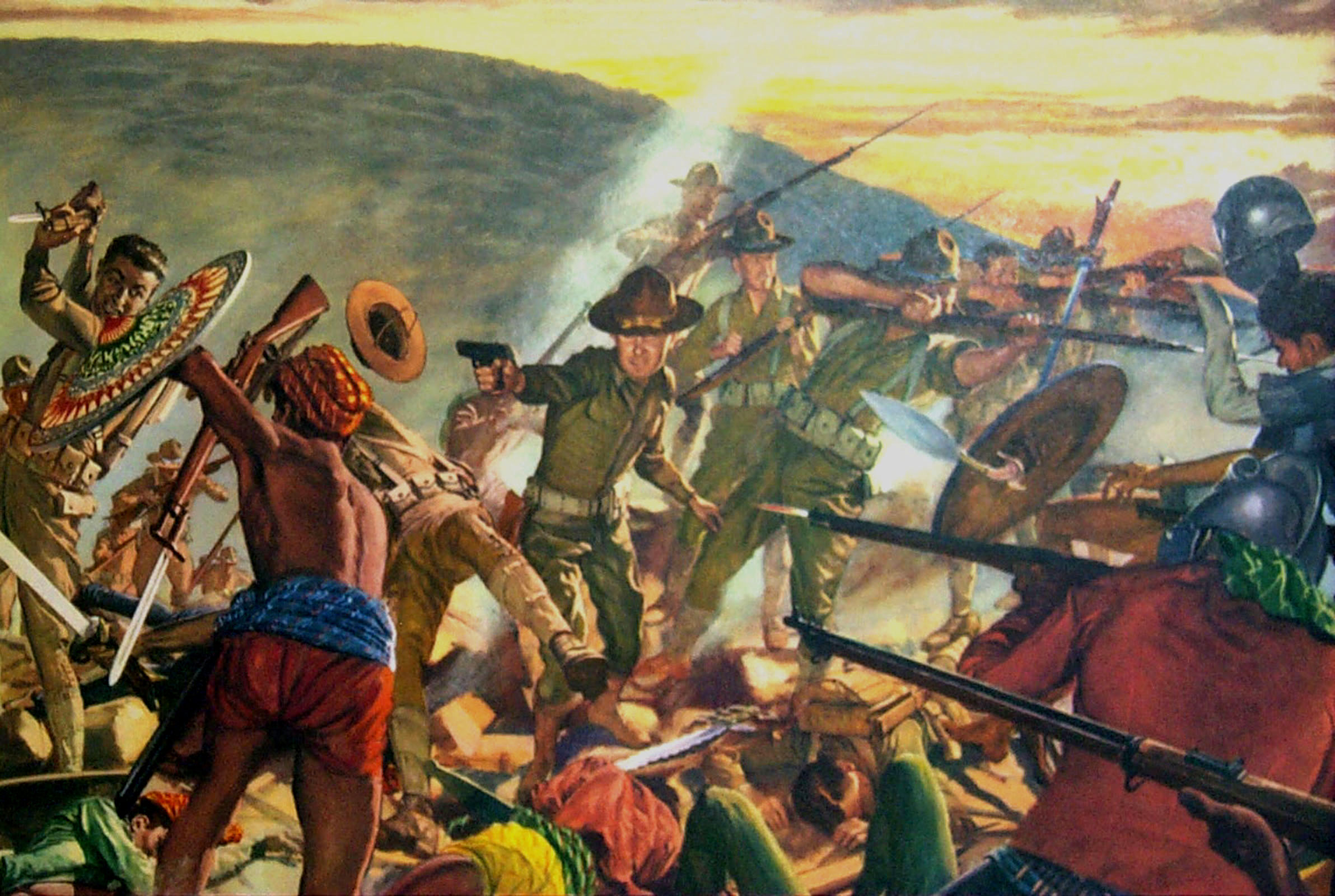 The four-day battle of Bagsak Mountain on Jolo Island in the Philippines took place from 11 to 15 June 1913. Americans of the 8th Infantry and the Philippine Scouts, personally lead by Brigadier General John J. Pershing, brought to an end years of bitter struggle against the Moro pirates. These Bolo men, outlaws of great physical endurance and savage fighting ability, were well organized under their Datus or chiefs. They had never been conquered during several centuries of Spanish rule in the Philippines. The U.S. Army .45-caliber pistol was developed to meet the need for a weapon with enough striking power to stop fanatical charges of lawless Moro tribesmen in hand-to-hand fighting.